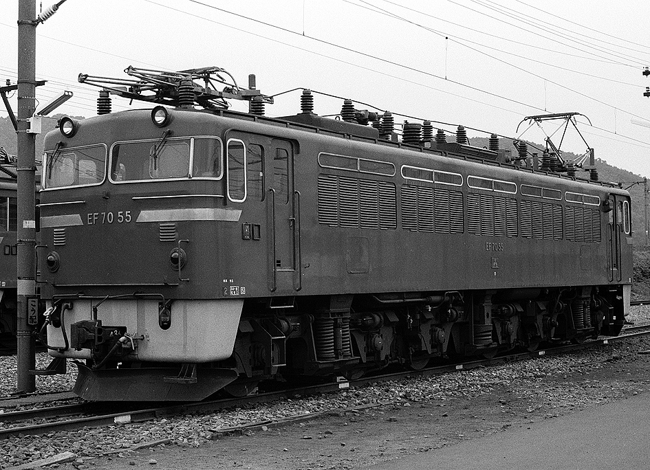 JNR Class EF70 electric locomotive EF70 55 on display at an open day event at Tsuruga No. 2 depot